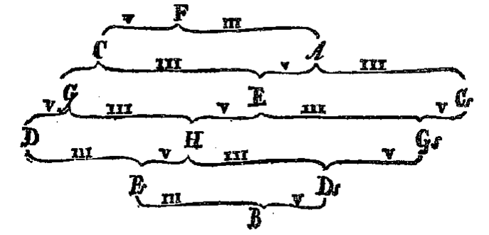 First known published description of a tonnetz.